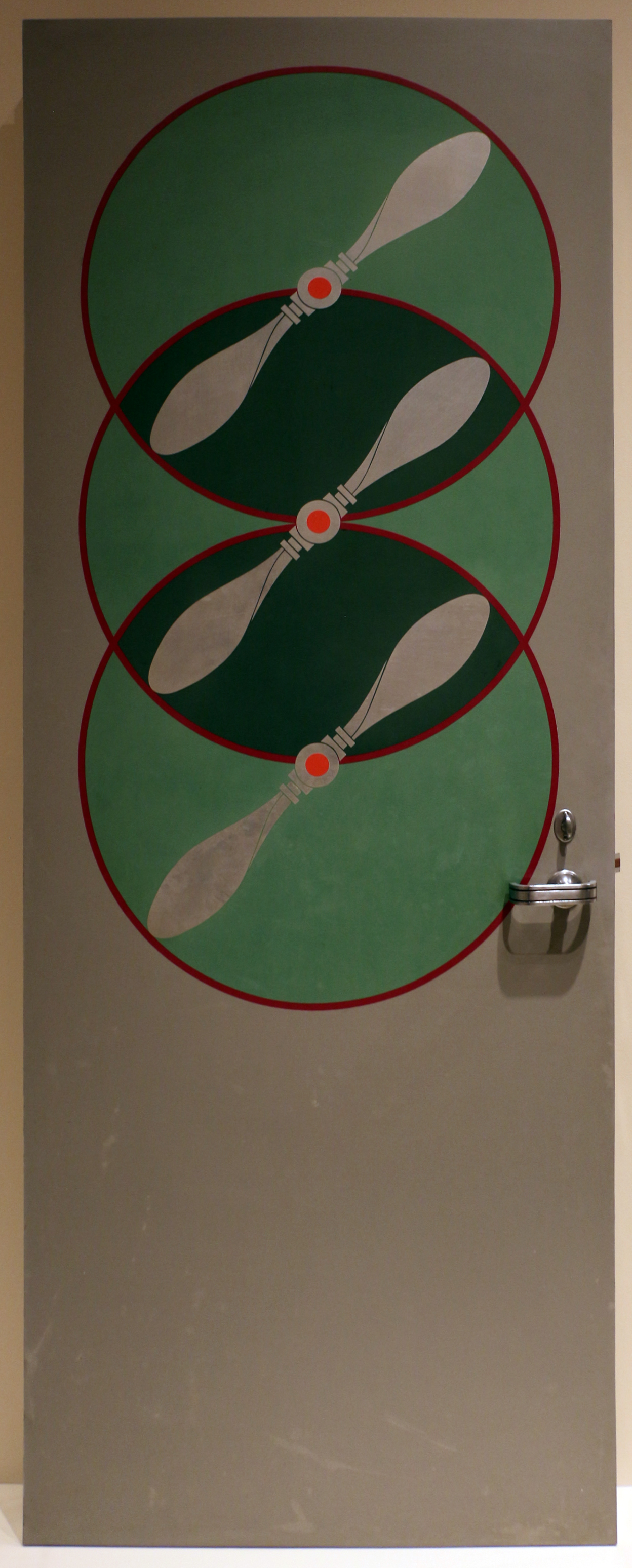 Metalware in the Indianapolis Museum of Art